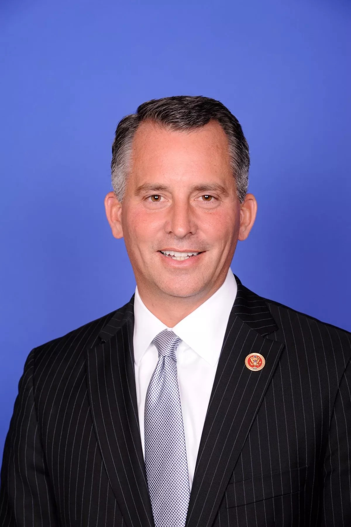 Official portrait of U.S. Representative David Jolly (R-FL).